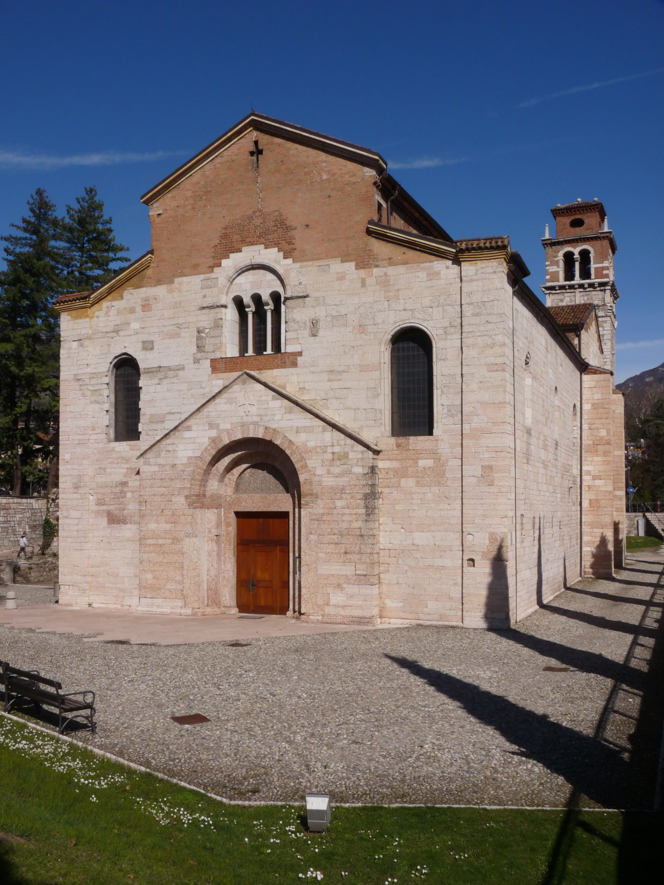 Trento (Italy): front of the church of San Lorenzo